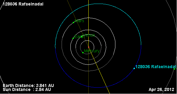 frontal view of 128036 Rafaelnadal orbit on 26 Apr 2012 (NASA Orbit Viewer)